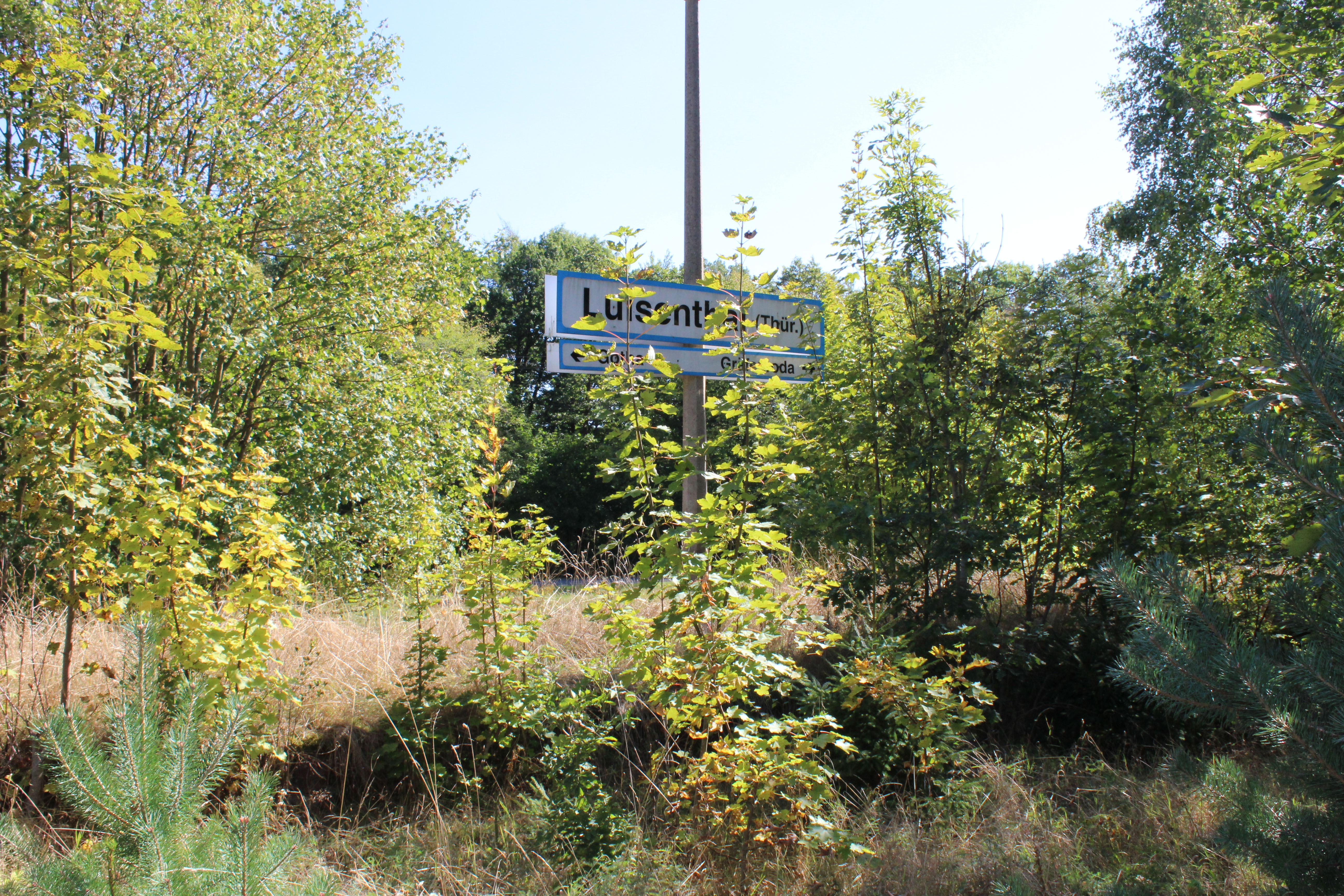 train station Luisenthal (Thür)